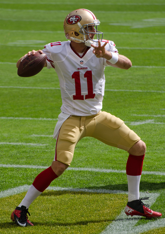 San Francisco 49ers vs. Green Bay Packers at Lambeau Field on September 9, 2012. Photo by Mike Morbeck.